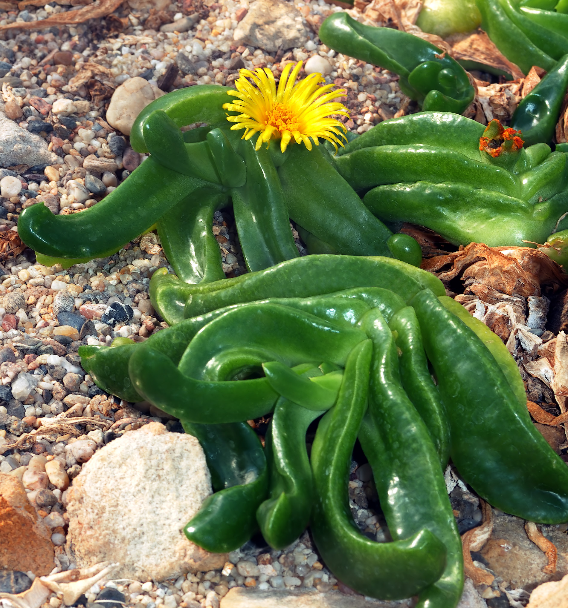 This image shows a plant of the species Glottiphyllum depressum.